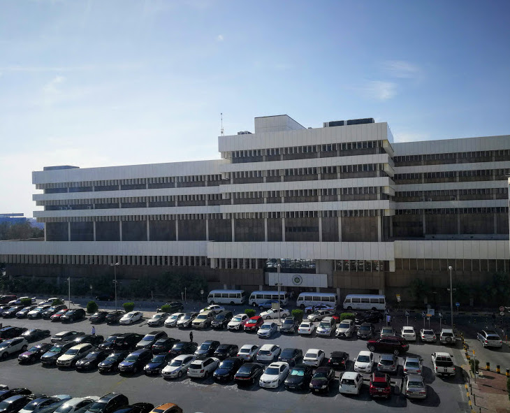 Photograph of the main building of the Arabian Gulf University, taken from Salmaniya Medical Complex, in Manama, Kingdom of Bahrain.